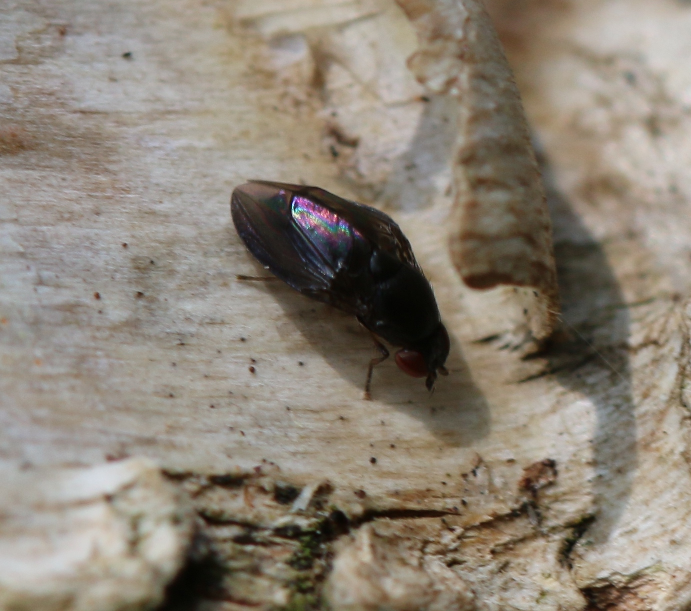 On birch trunk. Butterdean wood, East Lothian, Scotland. NT452719 Ref